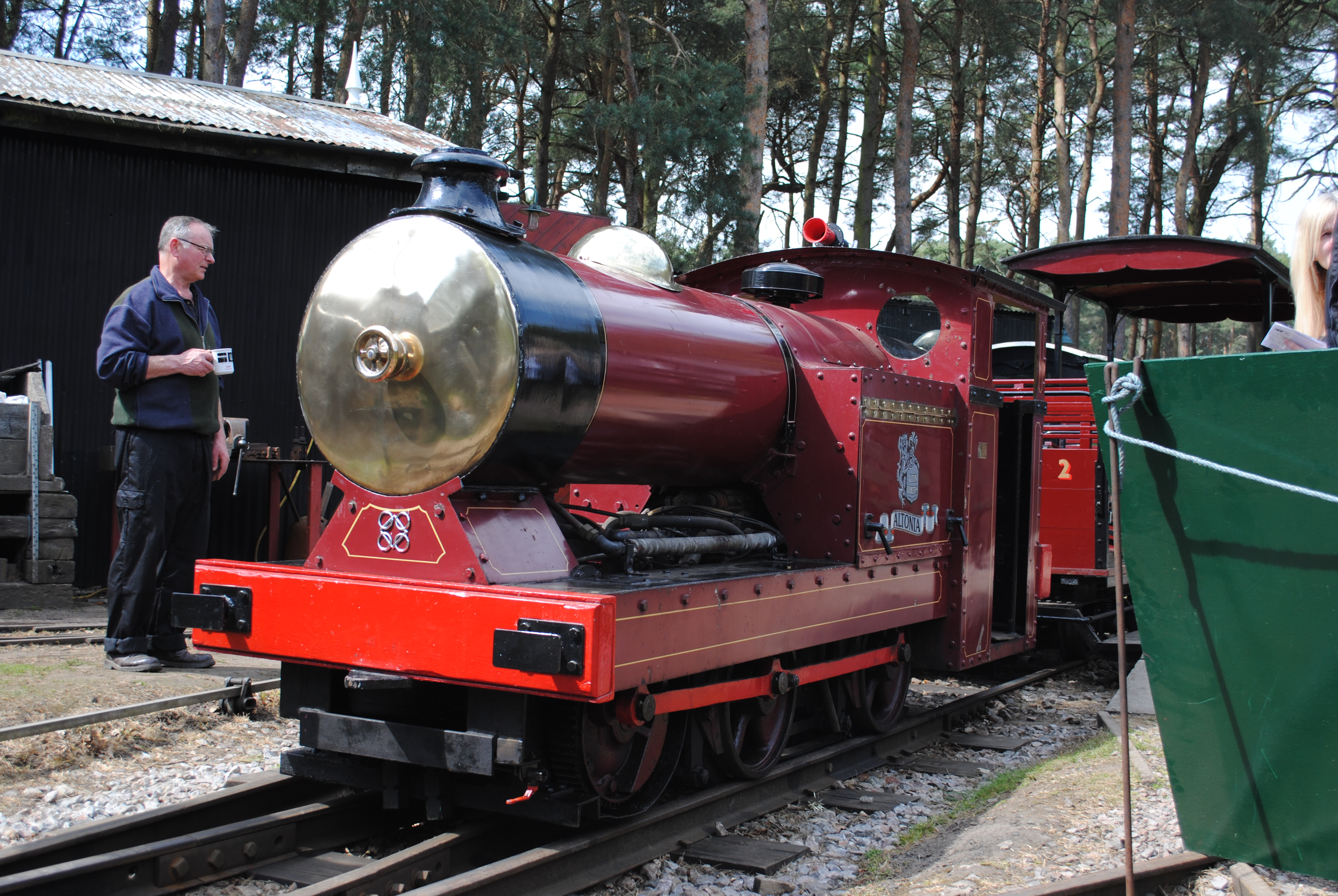 This locomotive was purchased by Alton Towers after the Lilleshal Line closed and was rebuilt in the guise of a steam locomotive.